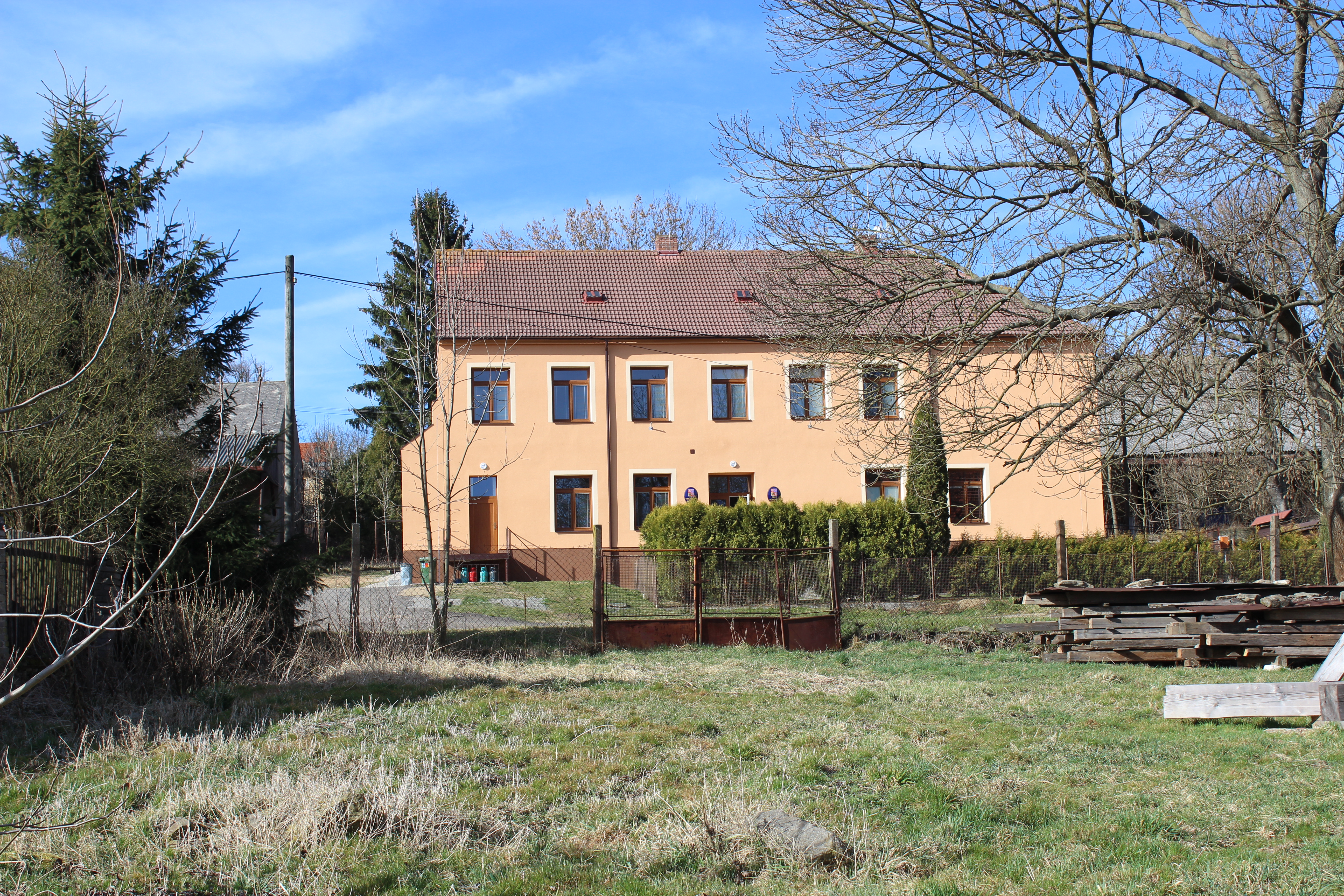 Fortress (castle) Popovice - former farmyard Popovice (Benešov District). Pig farm (former cowshed) Popovice. Municipally office in Popovice. Former barn in Popovice